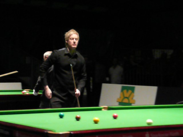 Neil Robertson at the Belgium Open in 2008